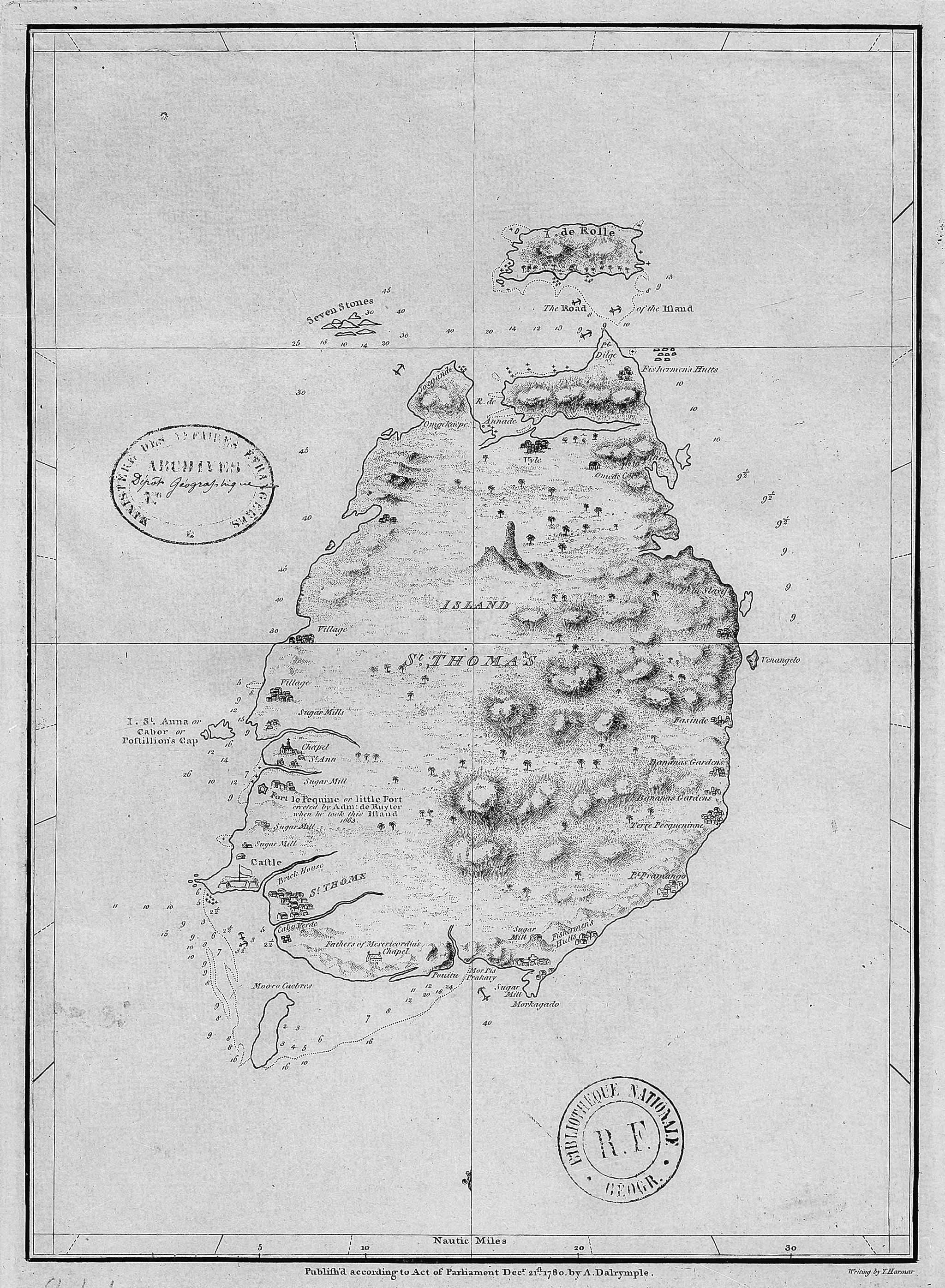 "Island St. Thomas / writing by T. Harmar"